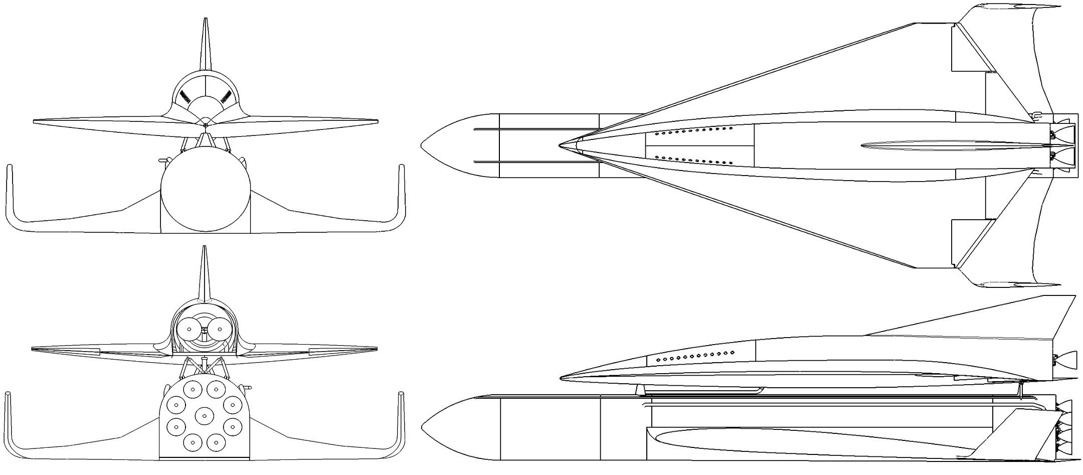 Drawing of the SpaceLiner 7 full configuration